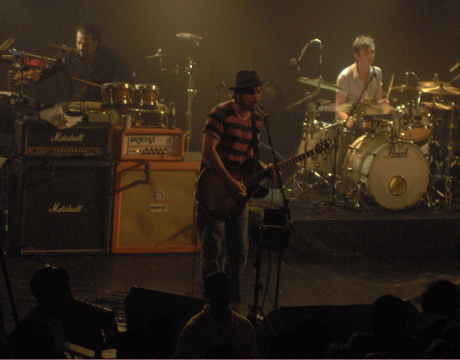 lighting was a bit odd, making it difficult to get any decent pictures. only really got one... this one support act, son of dave